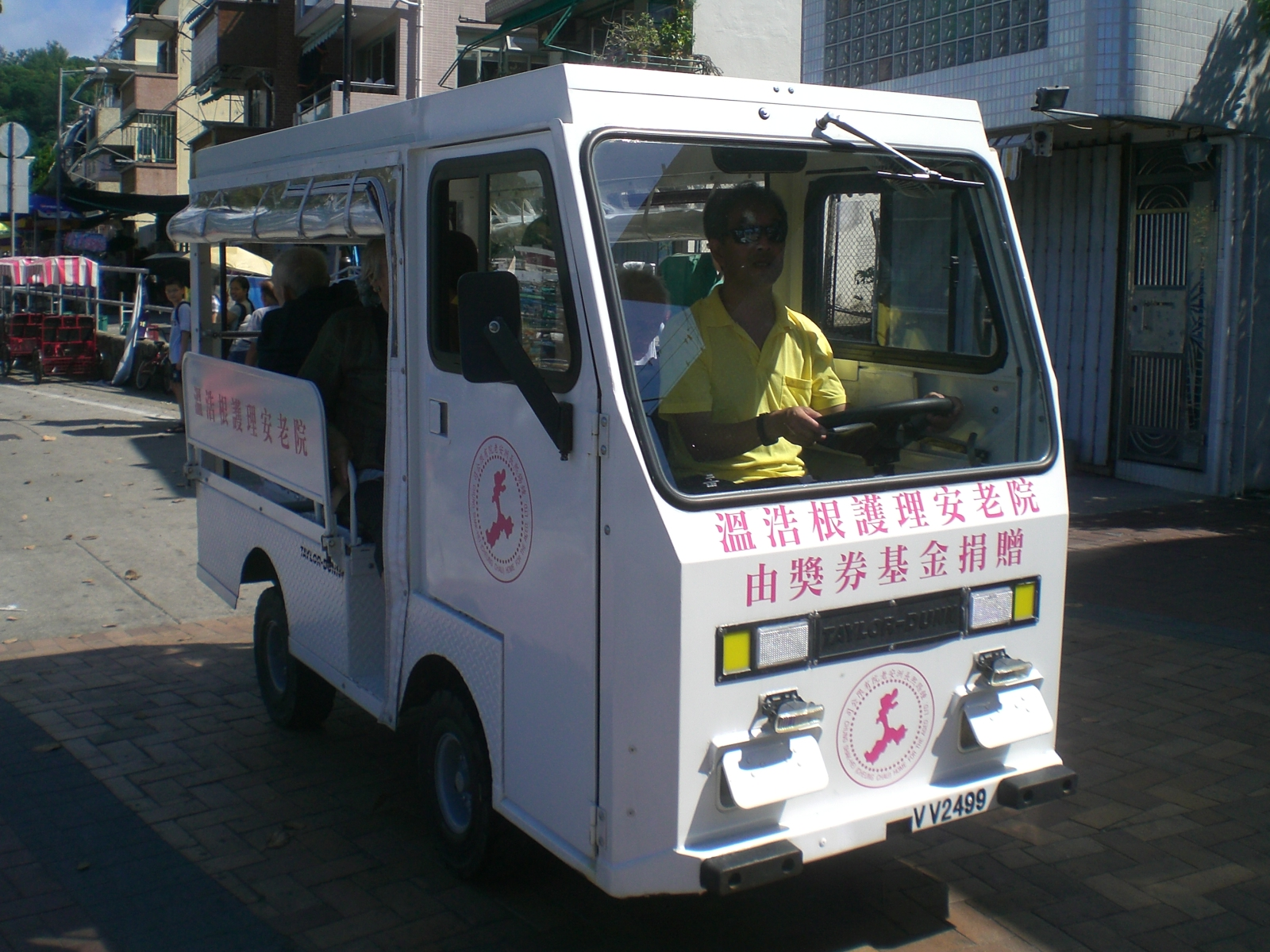 長洲zh:新興海傍街位於zh:長洲渡輪碼頭及zh:長洲避風塘毗鄰